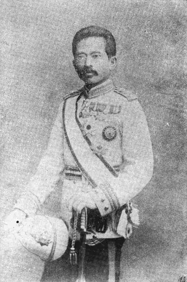 Prince Prisdang of Siam. Grandchild of King Rama III of Siam.